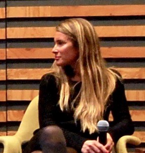 Ben Zimmer, Language Columnist, The Wall Street Journal; John McWhorter, Linguist and Associate Professor of English and Comparative Literature, Columbia University; Melissa Broder, Poet and Author, Last Sext; Katy Waldman, Words Correspondent, Slate